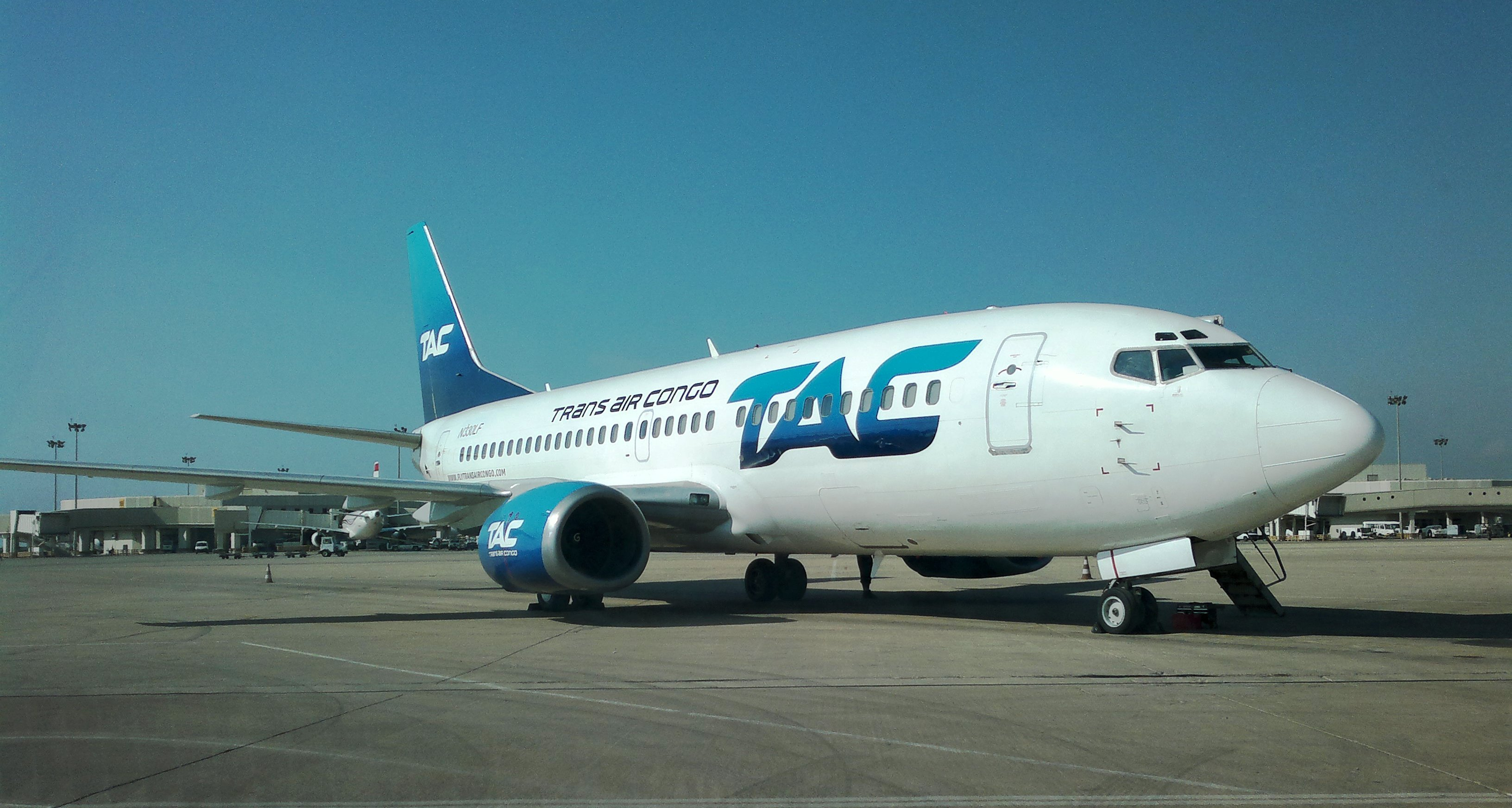 Trans Air Congo B737-300